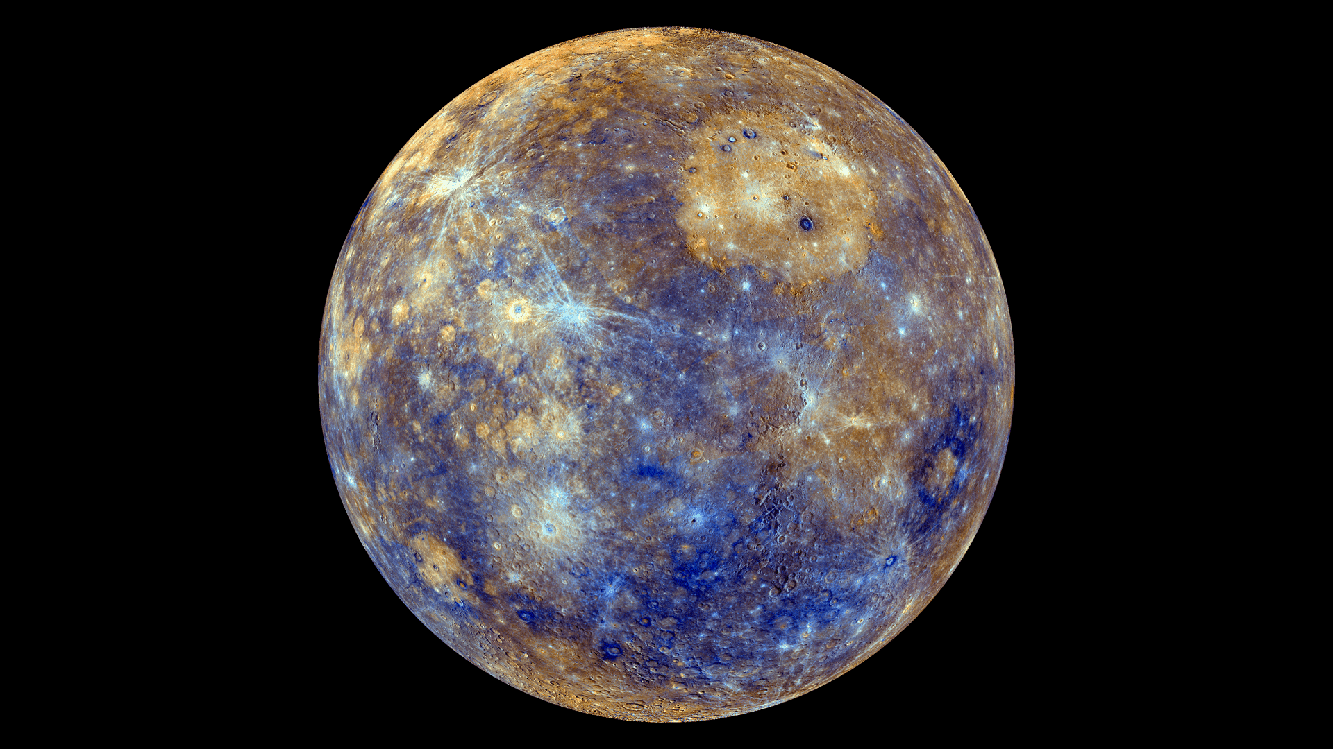 This colorful view of Mercury was produced by using images from the color base map imaging campaign during MESSENGER's primary mission. These colors are not what Mercury would look like to the human eye, but rather the colors enhance the chemical, mineralogical, and physical differences between the rocks that make up Mercury's surface.